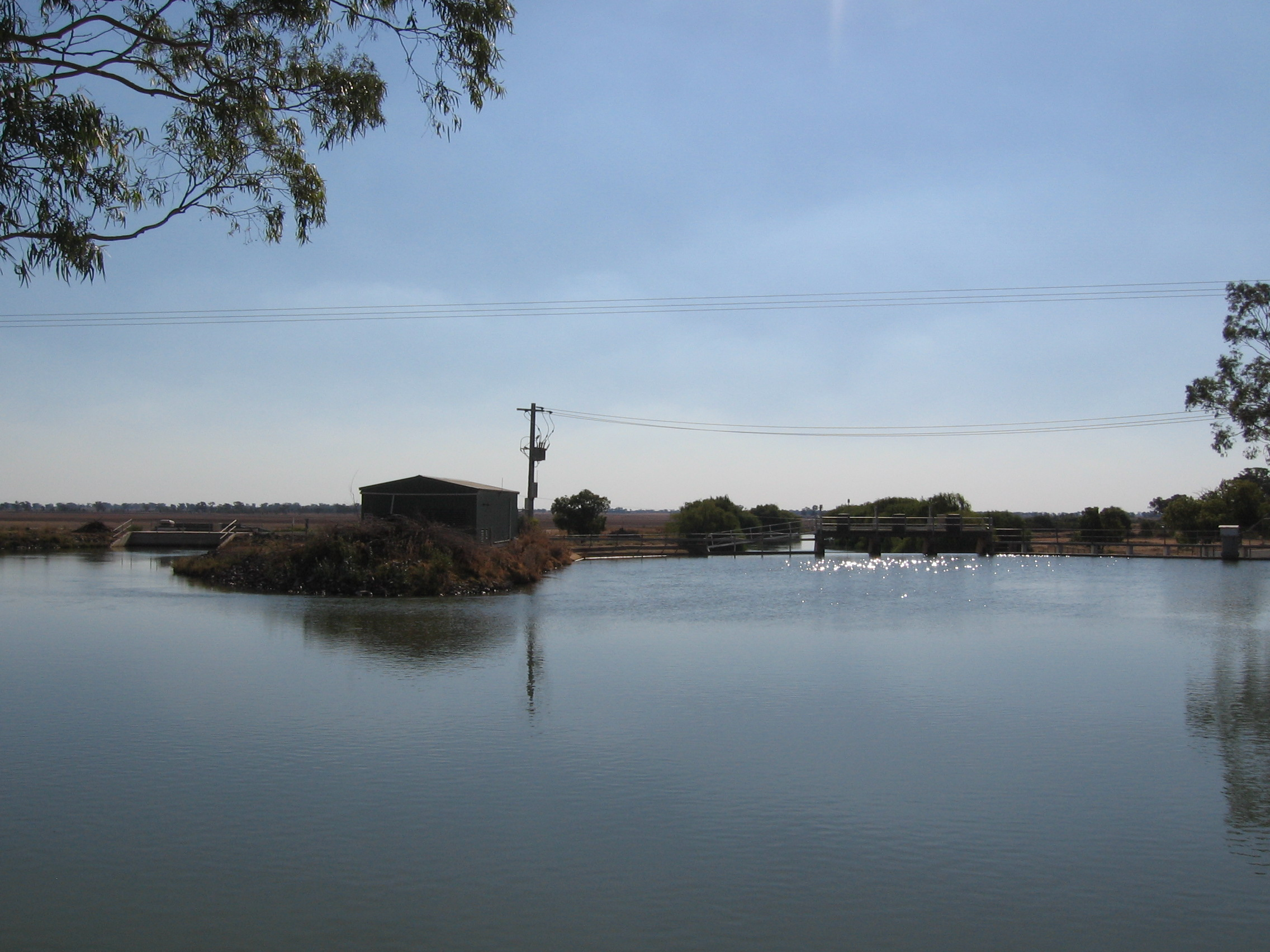 "The Drop", an irrigation channel barrage and minor hydro-electricity plant near Berrigan, New South Wales.